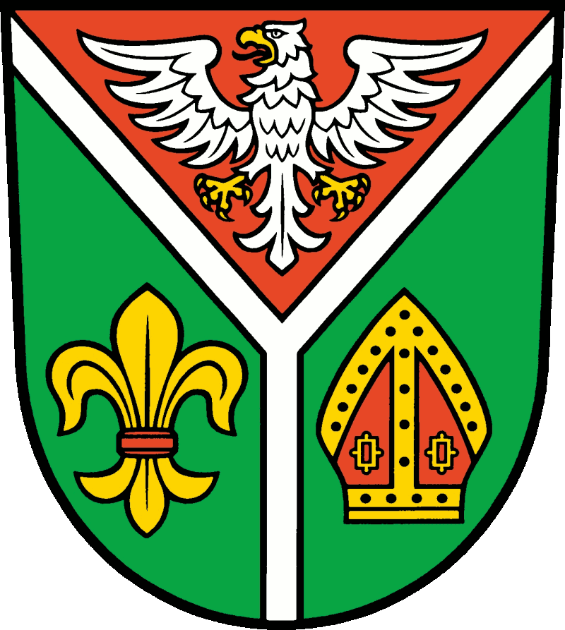 Coat of arms of the district of Ostprignitz-Ruppin, Germany